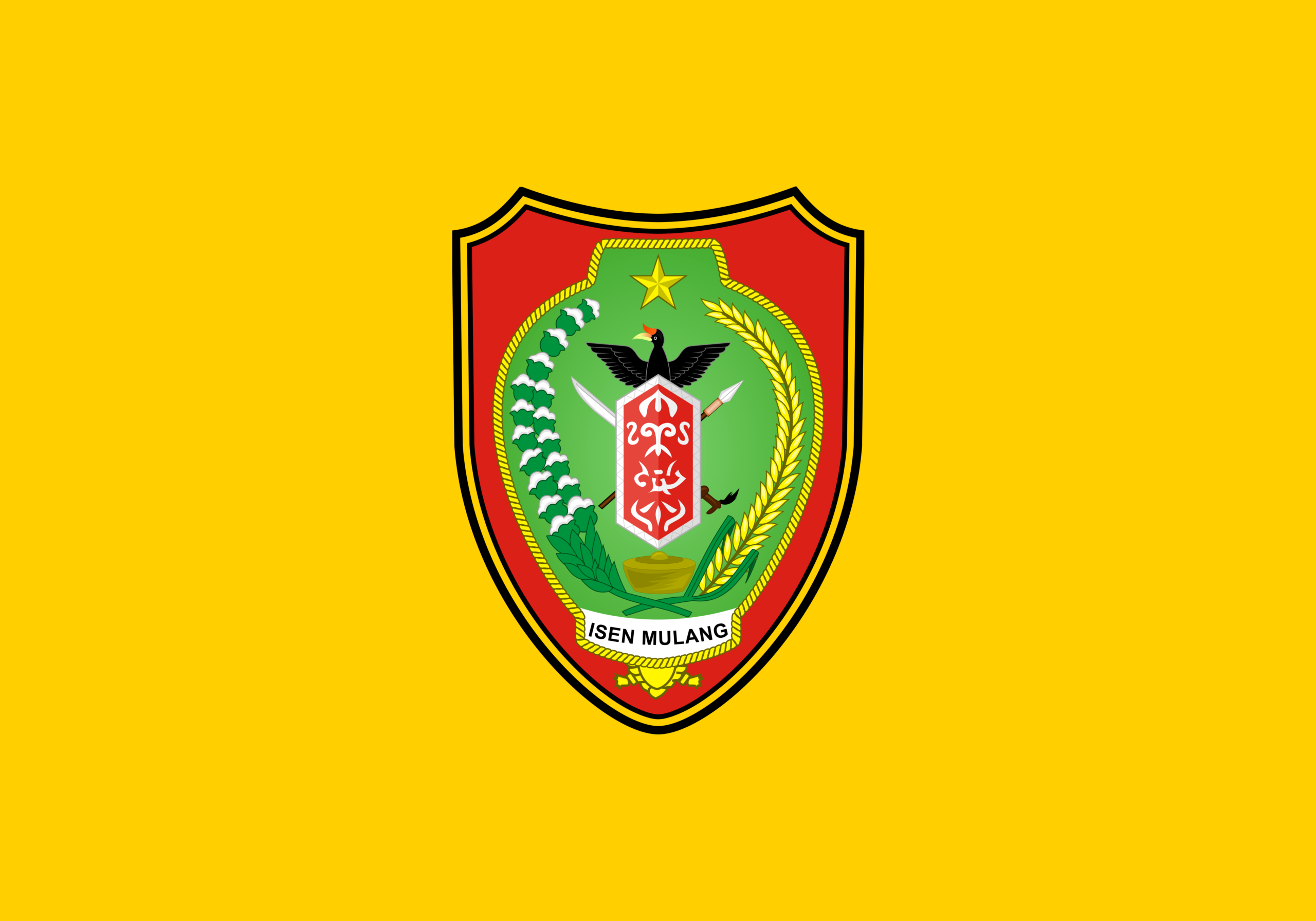 Flag of Central Kalimantan, See legal regulation about the flag.